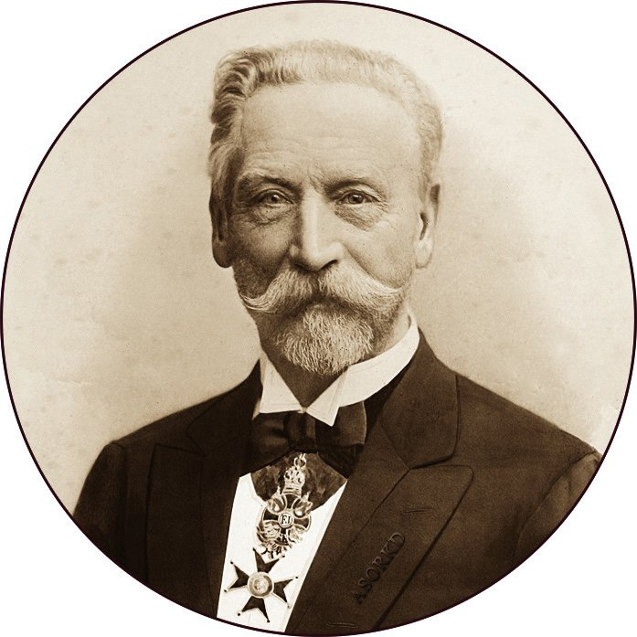 Heinrich von Mattoni (1830-1910). Czech-austrian entrepreneur and industrialist.